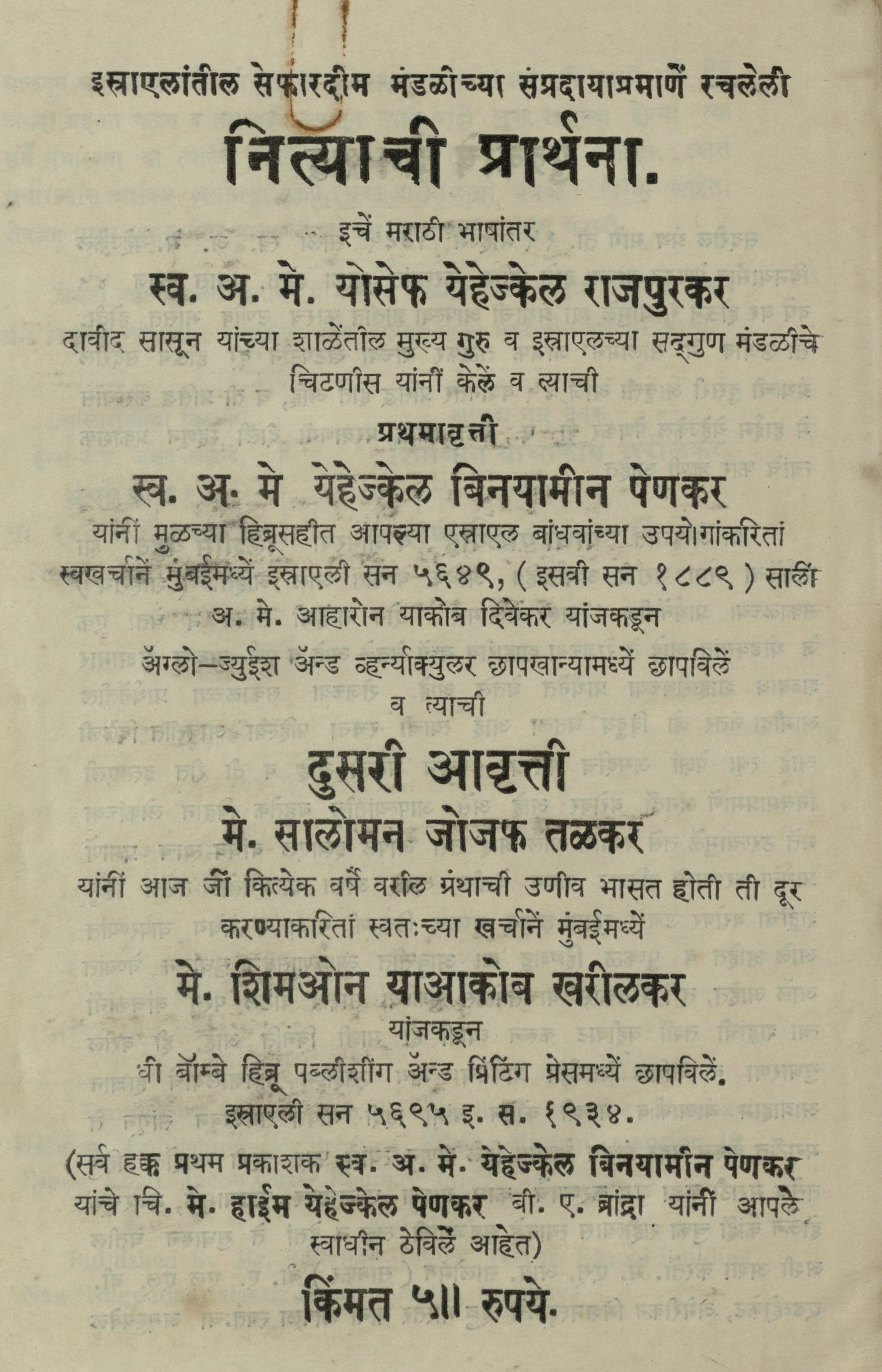 Jewish Prayer Book (Siddur) in Hebrew and Marathi , translated from Hebrew to Marathi in 1889 by Rajpurkar, Joseph Ezekiel